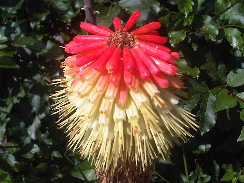 Kniphofia uvaria in London, England.